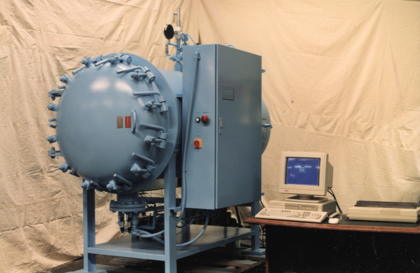 Small industrial autoclave used to manufacture F-16 transponder antennas